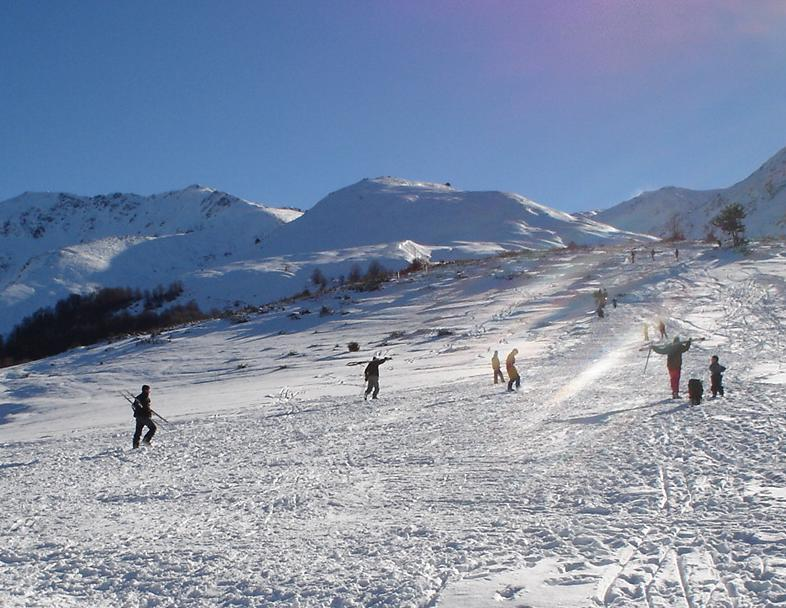 The Shar mountain range